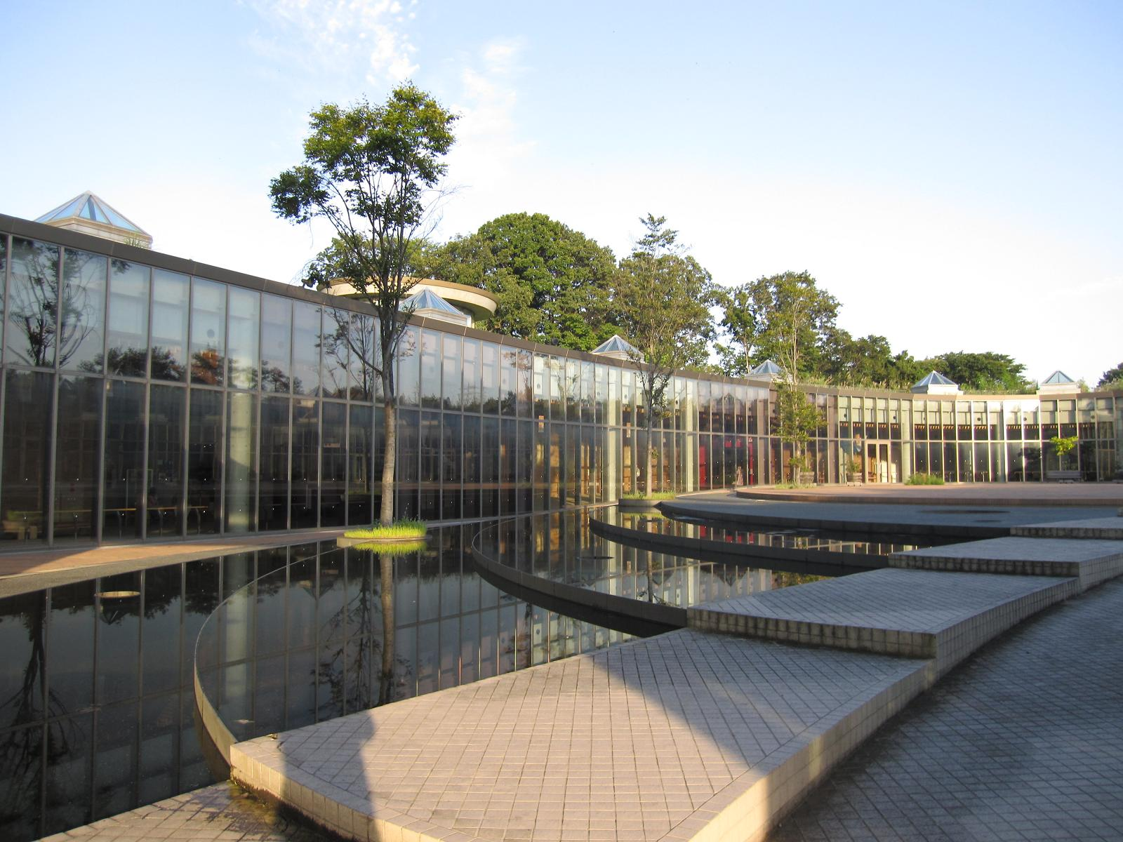 Jomon jiyukan garden